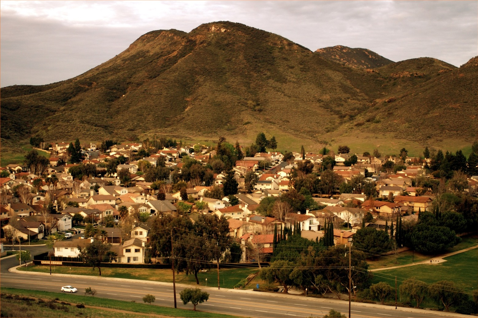 Casa Conejo, Calif. My neighborhood in the city of Newbury Park, California. Shot from the top of Rabbit Hill looking westward on a spring morning.